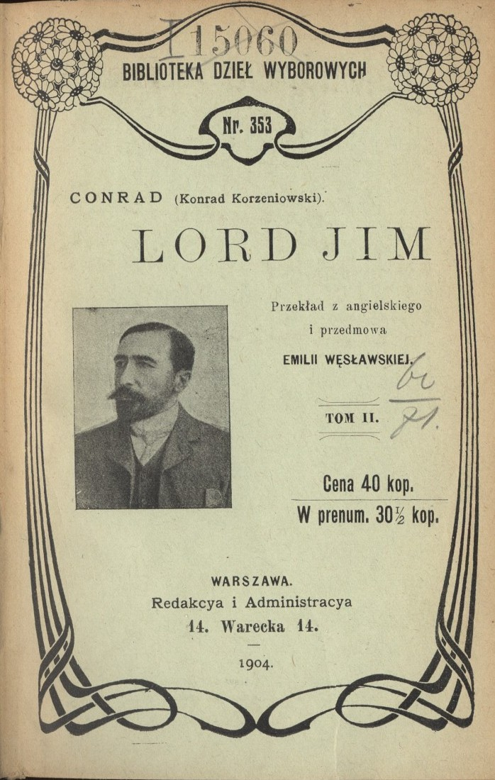 novel